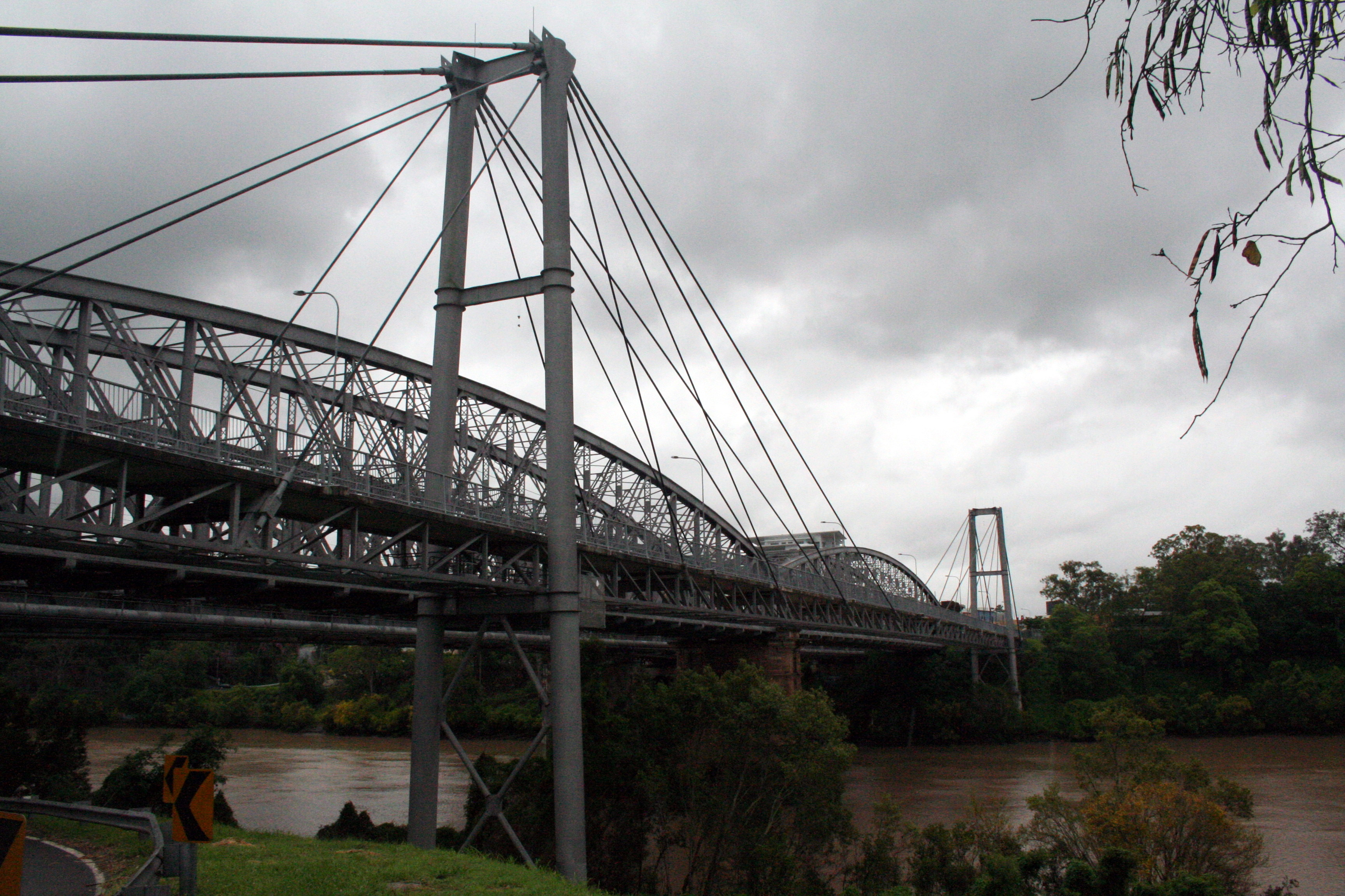 The Jack Pesch Bridge over the Brisbane River, linking linking Chelmer and Indooroopilly.